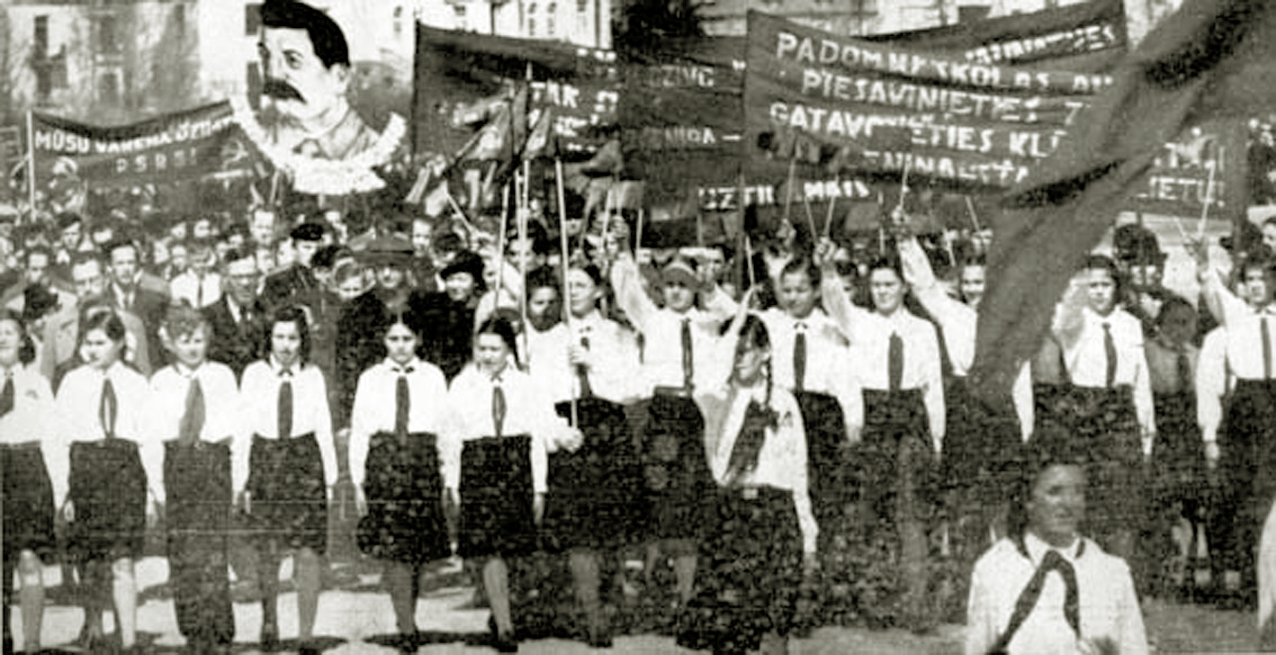 Latvian SSR, Riga. 1941 May Day holiday demonstration.png.